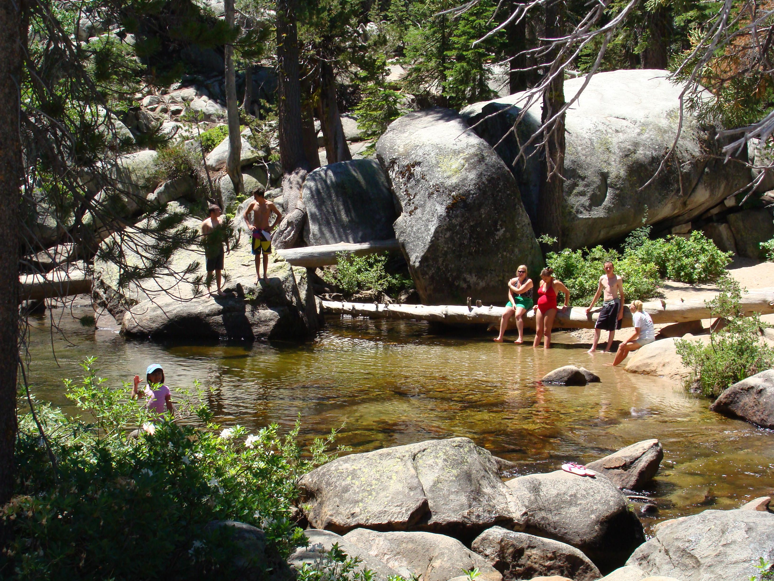 "Indian Pools" near china peak ski resort